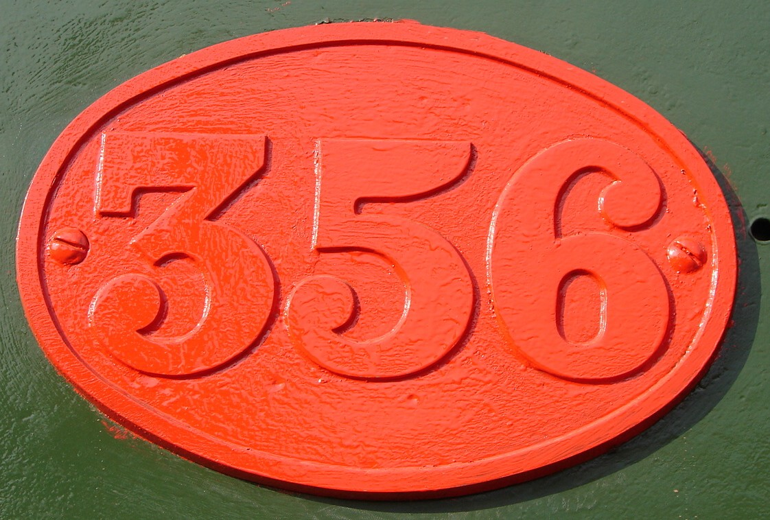 CGR number plateEx Cape Government Railways Class 6 356Ex Oranje-Vrijstaat Gouwermentspoorwegen Class 6 no. 61Ex Central South African Railways Class 6-L1 337South African Railways Class 6 432Builder's works number: Dübs 3057Location: Nigel, Gauteng